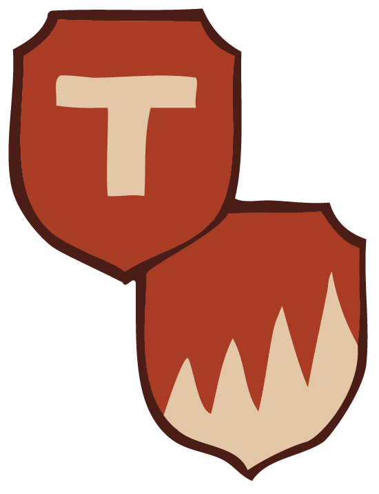 logo of the hotel / restaurant Brückenwirt (Albergo al Ponte), Neustift (South Tyrol)